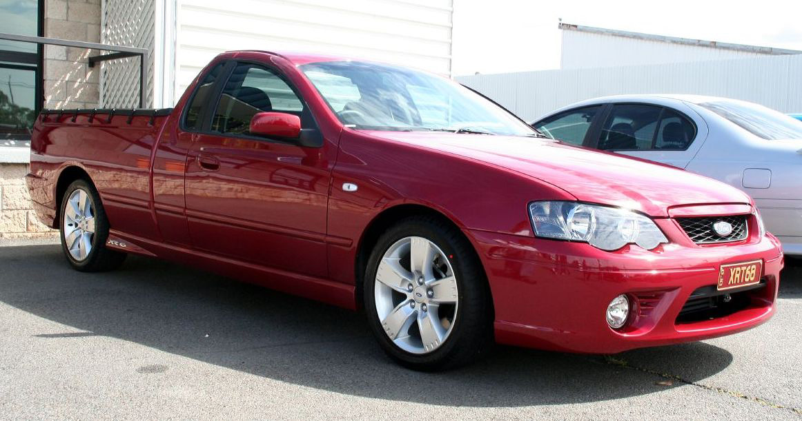 2007 Ford Falcon (BF II) XR6 Turbo utility. Photographed in Australia. Vehicle registration enquiry resultsJurisdictionQueenslandRegistrationXRT68Chassis code6FPAAAJGCM7C58163 Year of manufacture2007